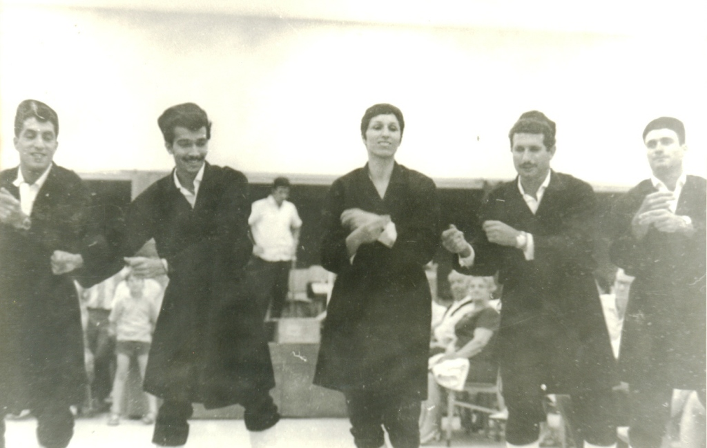 Kibbutz Yagur - Wedding Dance, Events in Israel